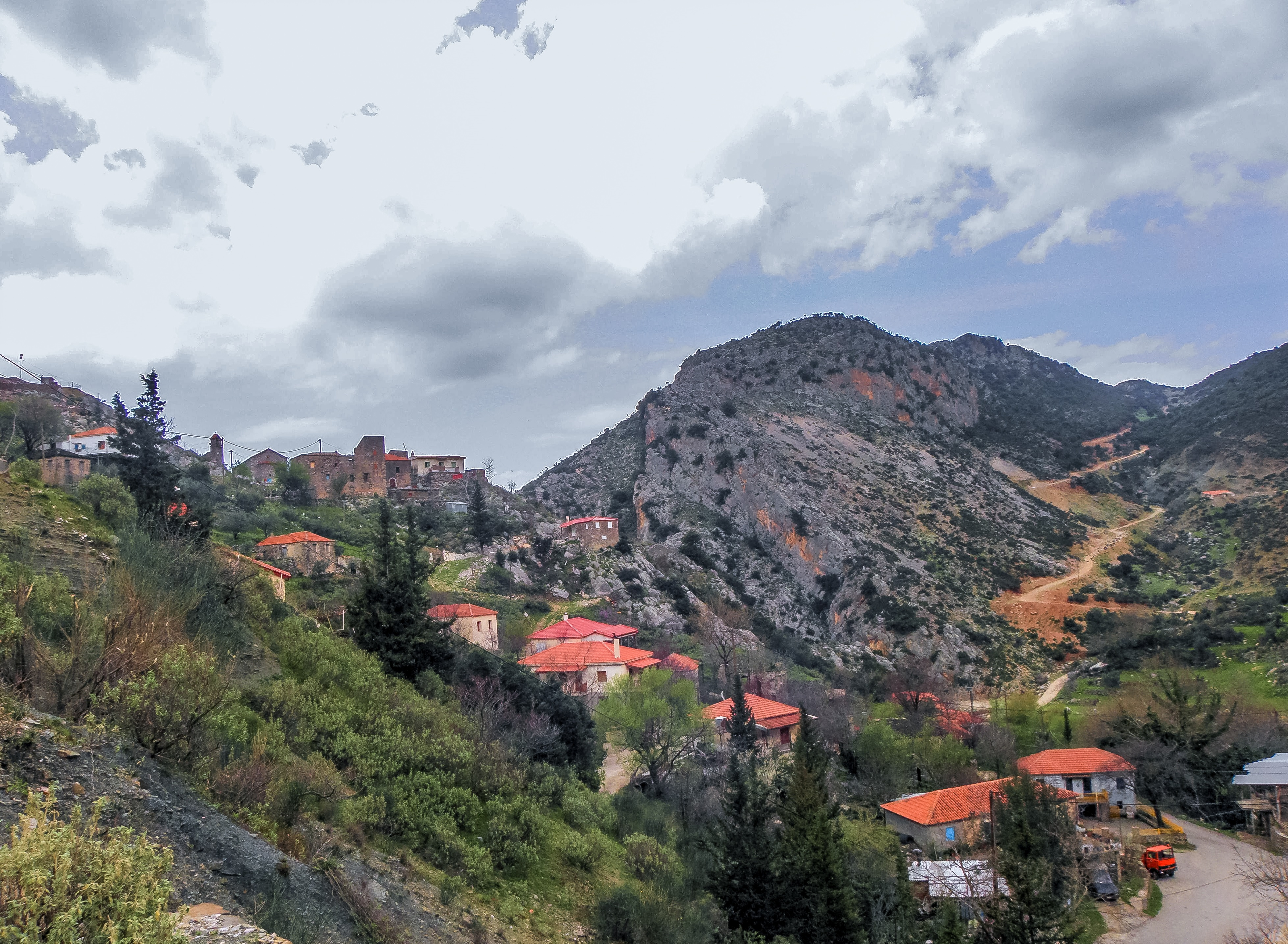 Alepochori, Achaia, Greece. View from above.